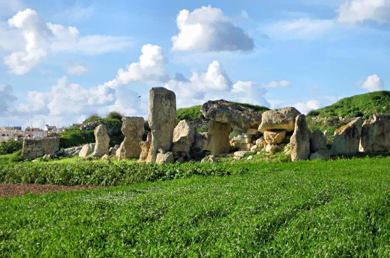 Malta